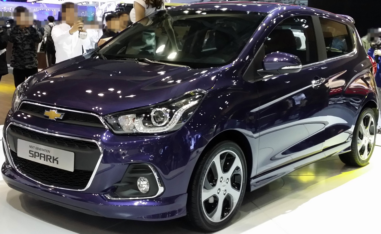 Chevrolet Spark